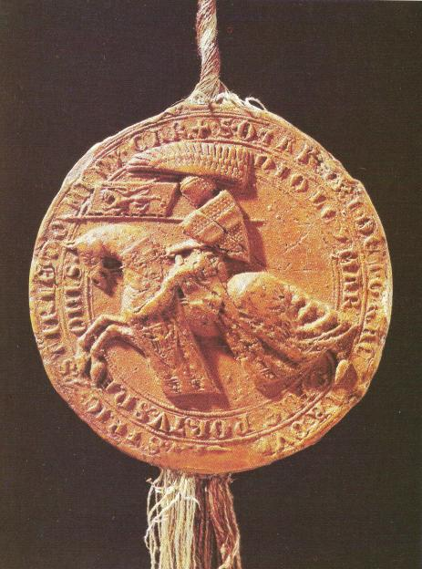 signet of Přemysl Otakar II